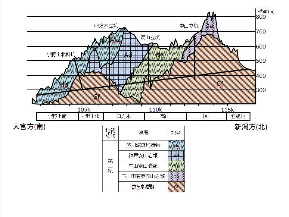 Geological map of Nakayama tunnel Joetsu shinkansen, as of 1973